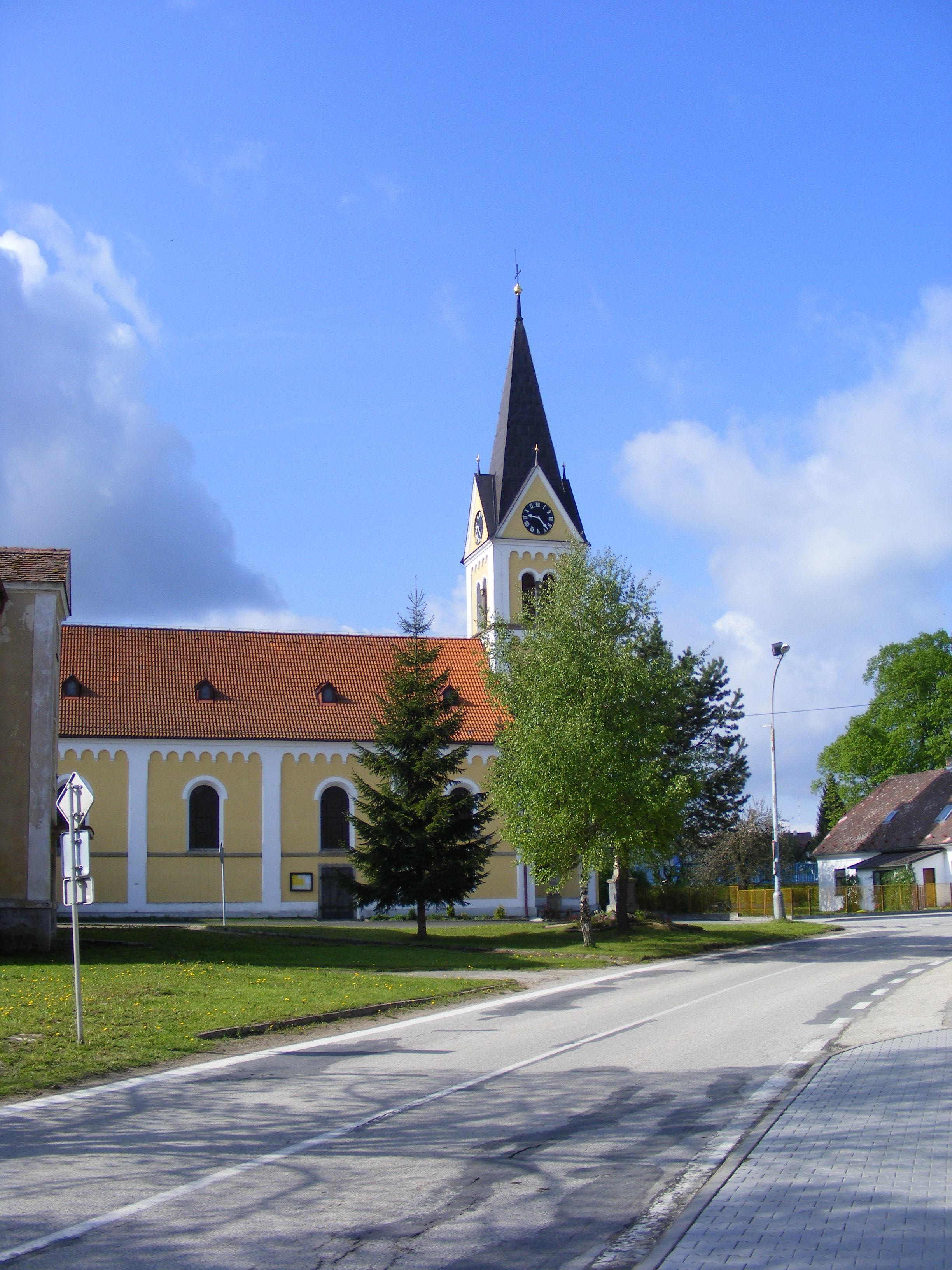 Church in Černá v Pošumaví